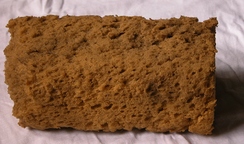 Picture of car sponge.